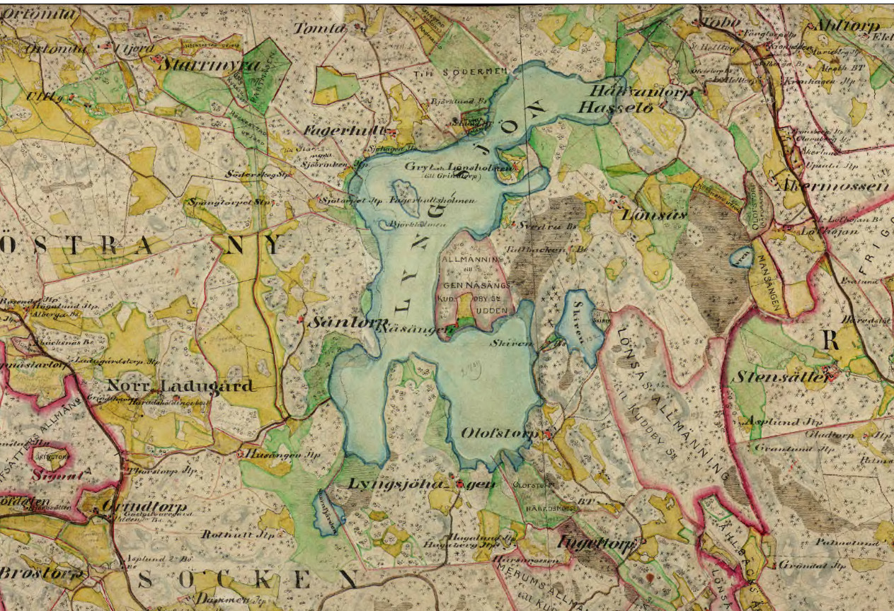 Lyngsjön in Häradsekonomiska kartan, chart Stegeborg